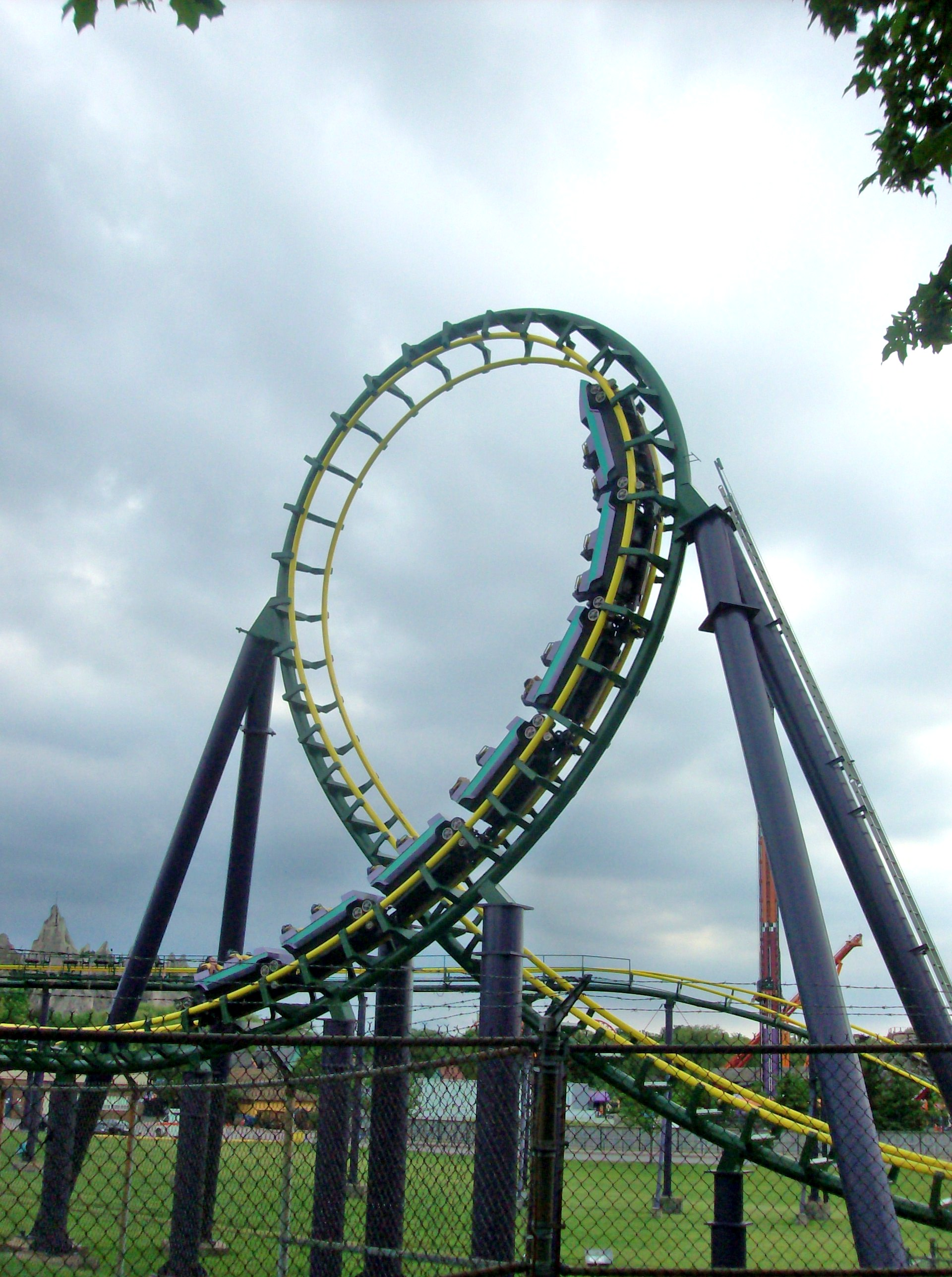 Dragon Fire is one of the original roller coasters at Canada's Wonderland.